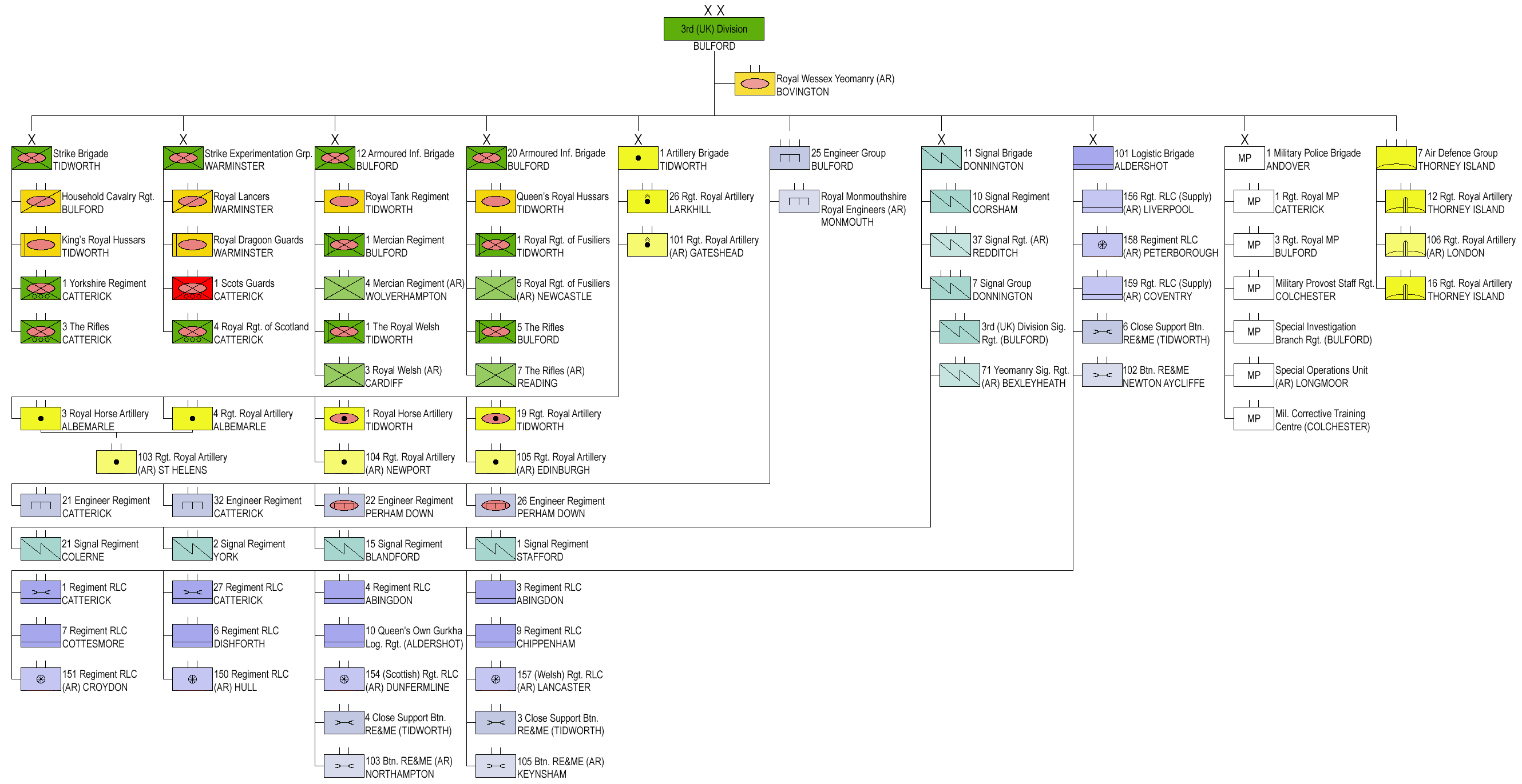 Structure of 3rd (UK) Division after the 2019 changes